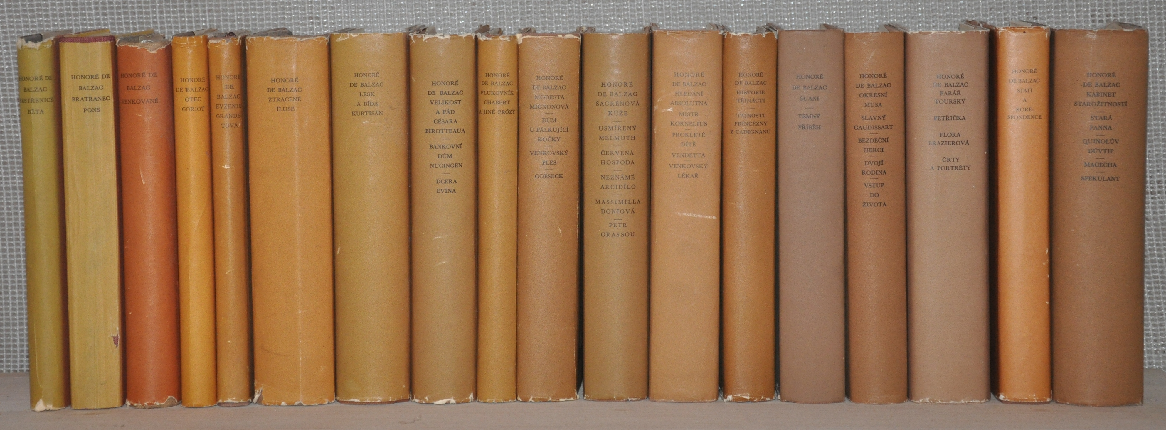 Works of Honoré de Balzac in Czech, 18 volumes in Knihovna klasiků, 1950 - 1988. Spisy Honoré de Balzaca, I-XVIII, Knihovna klasiků, 1950 - 1988